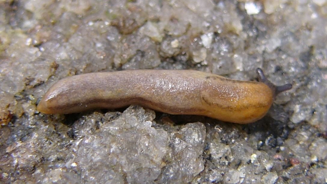 Arion obesoductus, synonym: Arion alpinus auctt. non Pollonera, 1887. Sensu interpretation by Manganelli et al. 2010. Locality: Czech Republic, NPR Žákova Hora. Det. Libor Dvořák according ethanol preserved specimen. See also at other photo of this specimen: [1], [2].